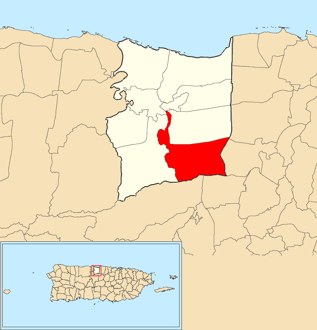 Locator map for barrio in Manatí, Puerto Rico